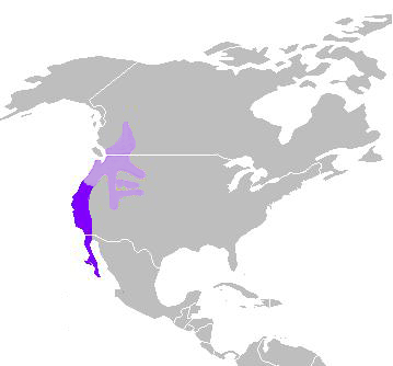 Caalifornia Quail Callipepla californica distribution. Dark purple: native Light purple: introduced